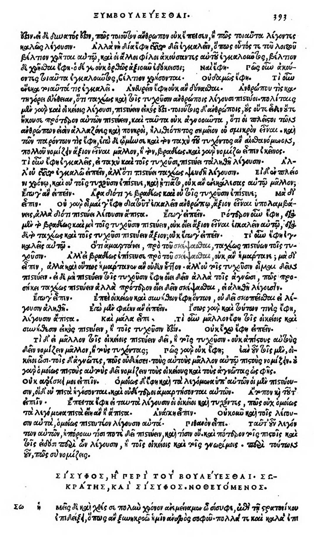 Sisyphos beginning. Editio princeps, Venice 1513.